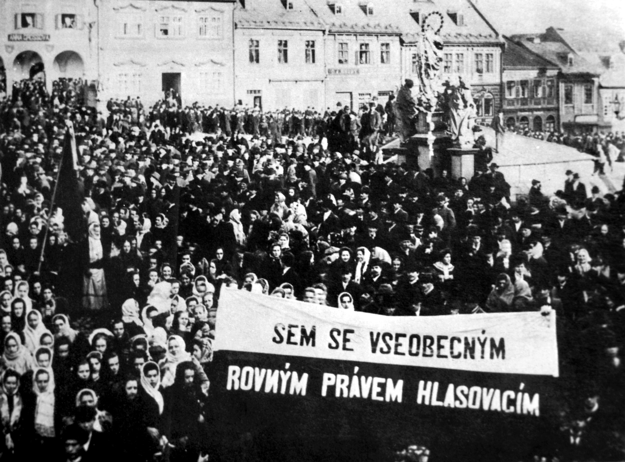 Demonstration for equal voting right in Czech (at that time Austro-Hungarian) town Jilemnice Česky: Demonstrace na jilemnickém náměstí za všeobecné hlasovací právo